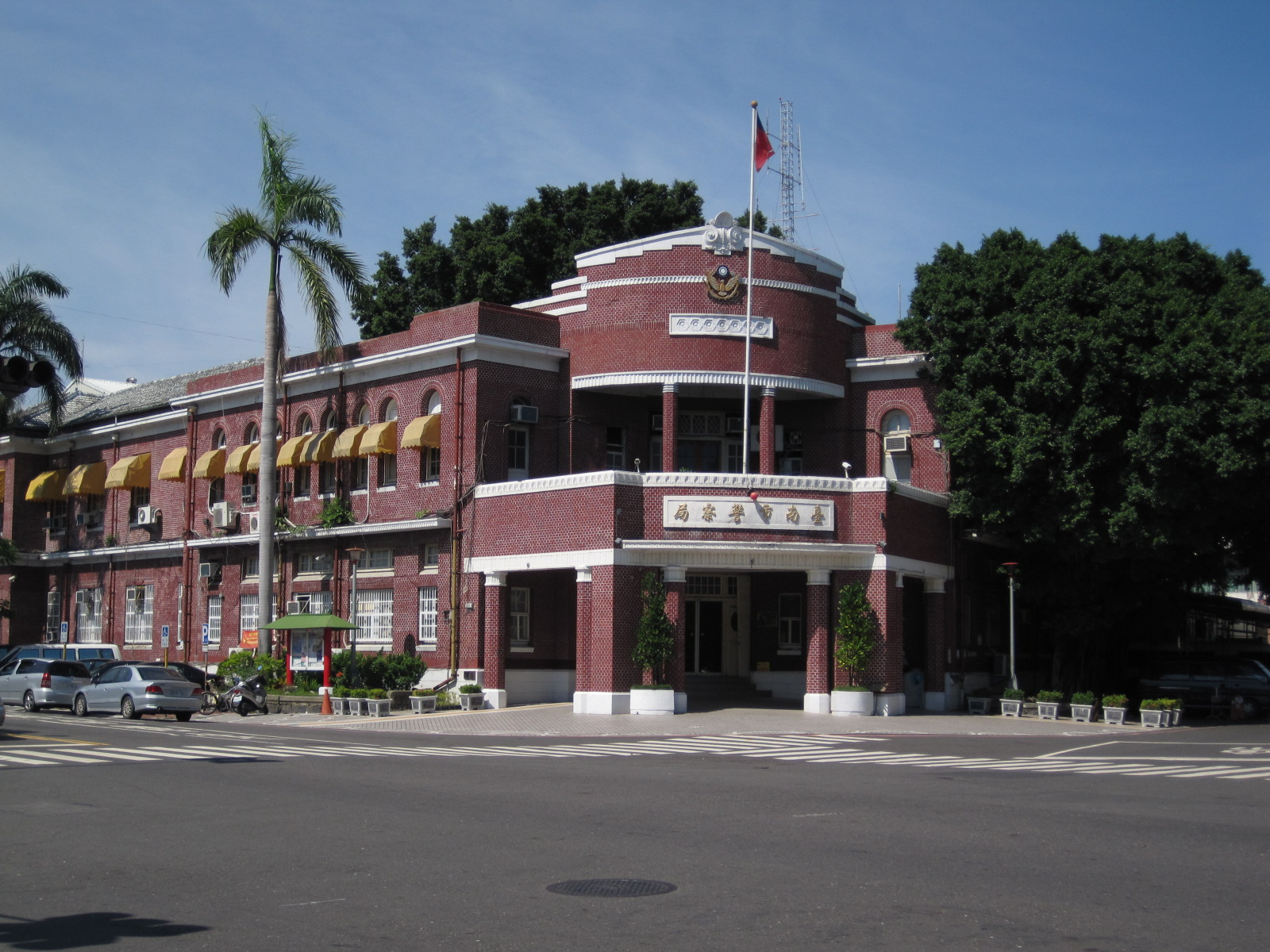 Tainan City Police Bureau